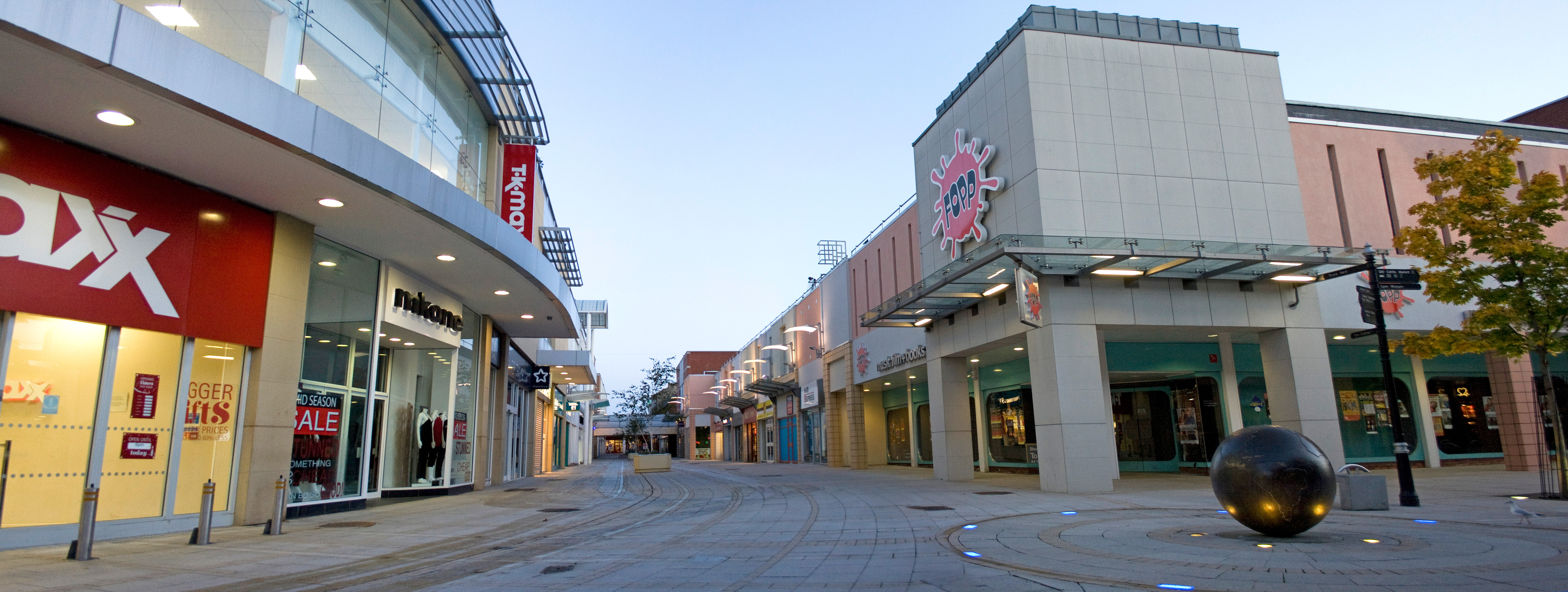 Modern Centre of King's Lynn, Norfolk, UK